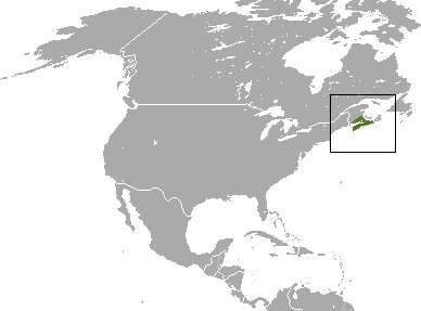 Maritime Shrew (Sorex maritimensis) range